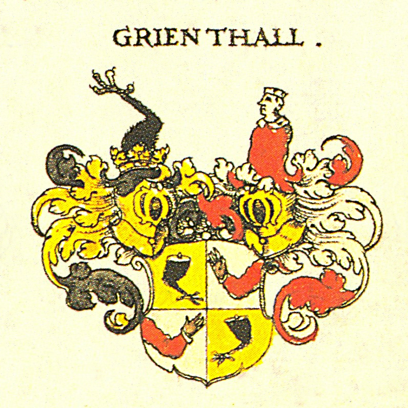 Coat of Arms of Grienthal (Gruenthal)